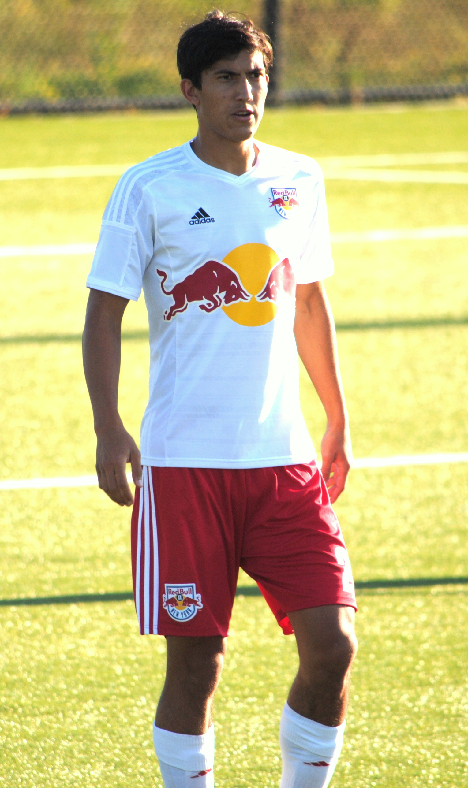 Stefano Bonomp